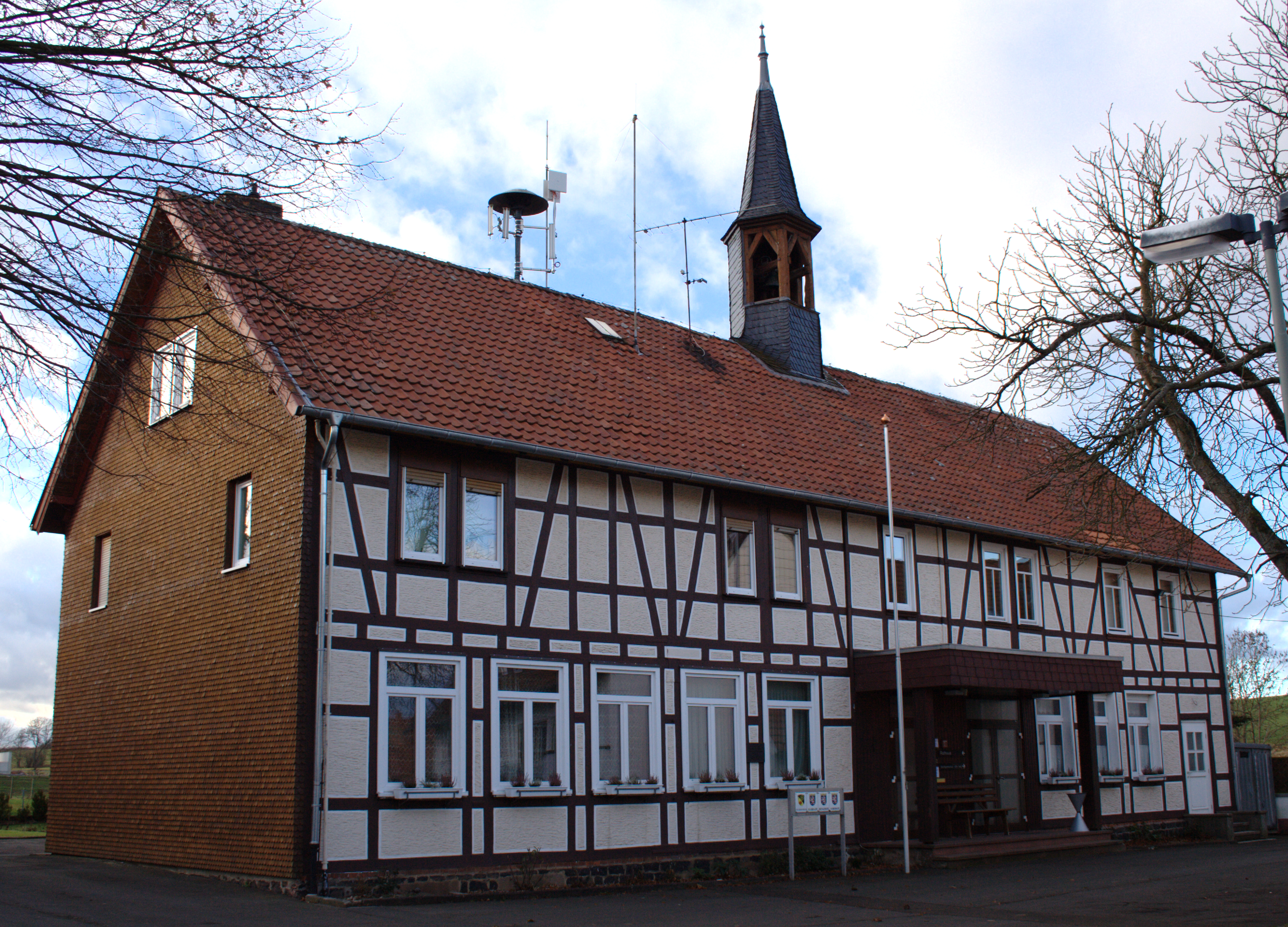 Town hall in Hoergenau Rathausstrasse 3 Lautertal, Hesse, Germany